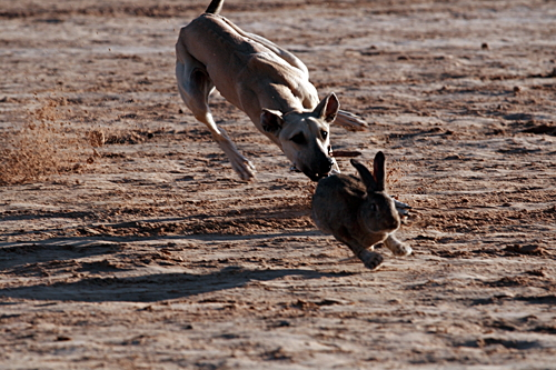 Sloughi hunting a rabbit shot at the 43rd International Festival of the Sahara in Douz, Tunisia